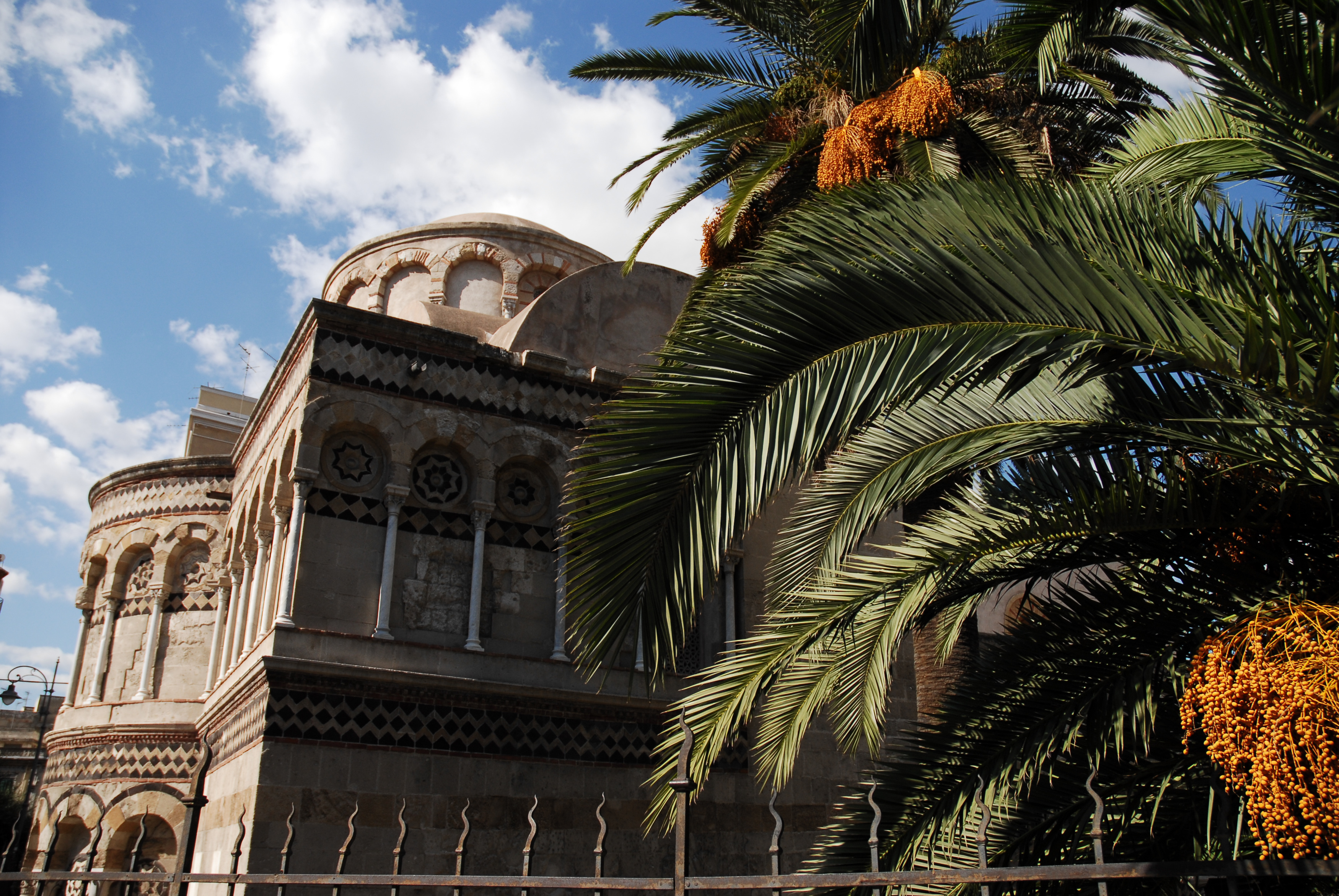 The 12th Century Church of Annunziata dei Catalani. Messina, Island of Sicily, Italy, Southern Europe.